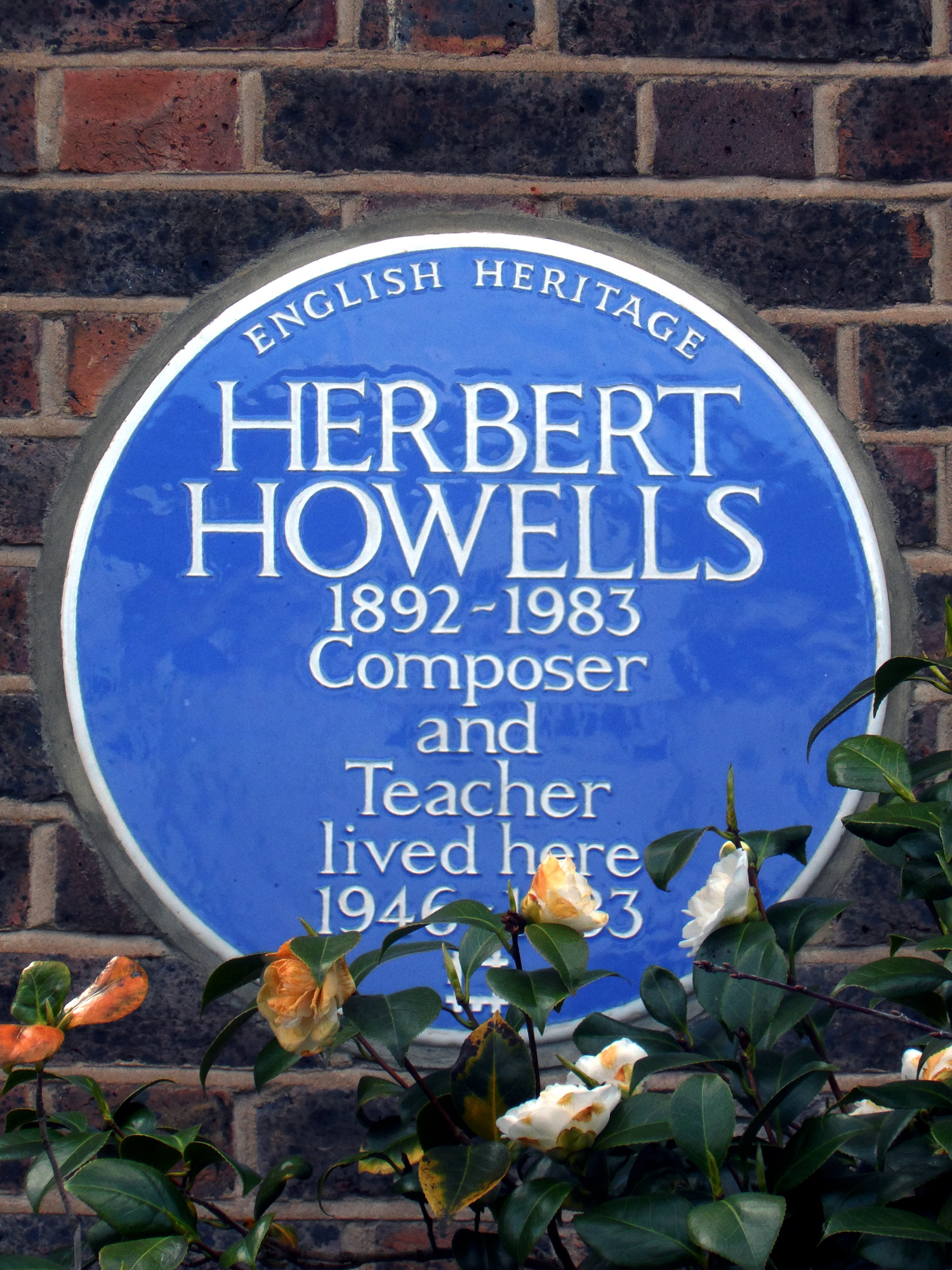 Blue plaque erected in 2011 by English Heritage at 3 Beverley Close, Barnes, Barnes SW13 0EH, London Borough of Richmond upon Thames